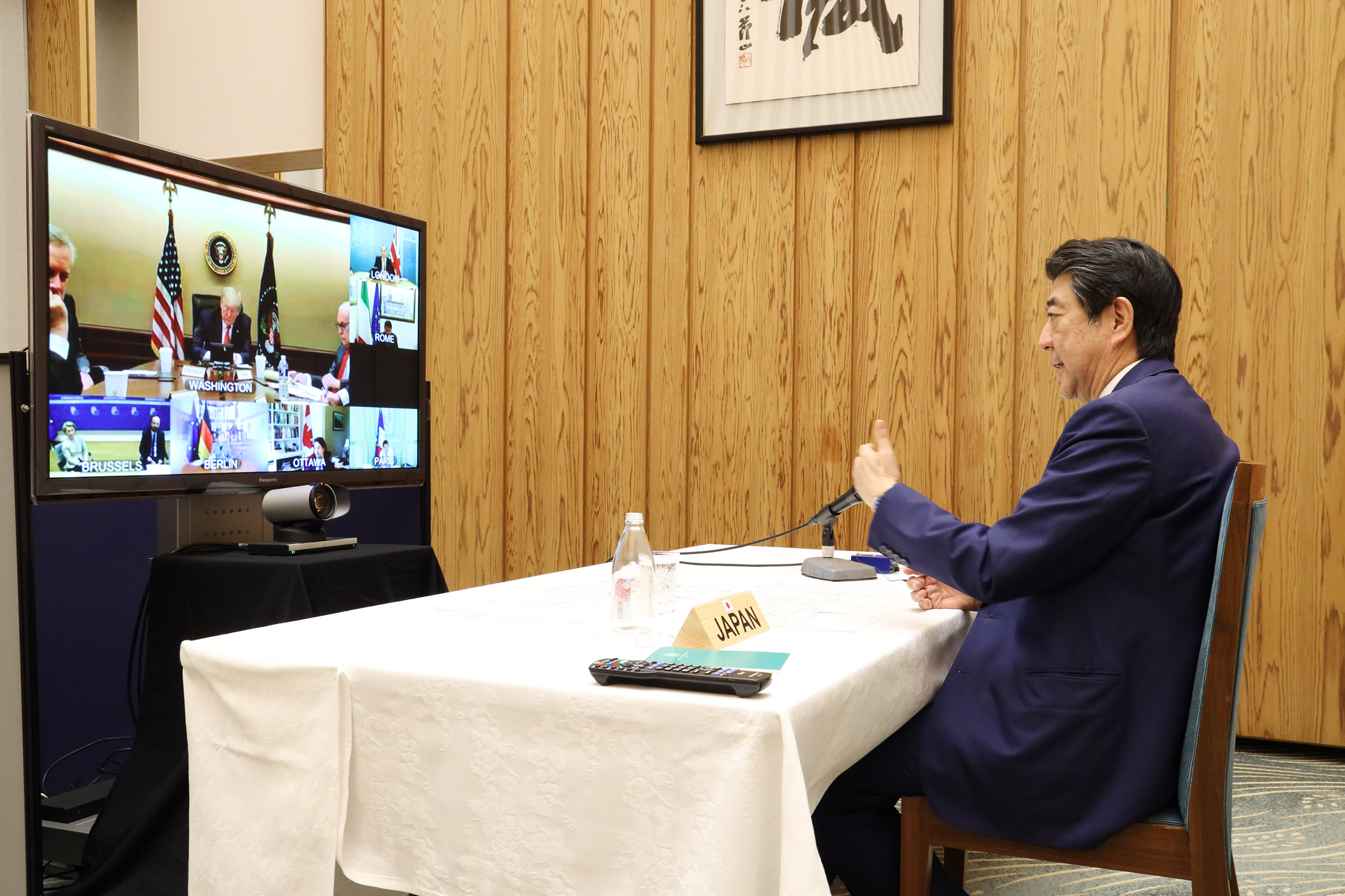 Shinzō Abe, Prime Minister, attended a video conference of the Group of Seven at the Prime Minister's Official Residence in Chiyoda Ward, Tōkyō Metropolis on April 16, 2020. Abe talked to Emmanuel Macron, President, Donald Trump, President, Dominic Raab, Secretary of State for Foreign and Commonwealth Affairs, Angela Merkel, Federal Chancellor, Giuseppe Conte, President of the Council of Ministers, Justin Trudeau, Prime Minister, Charles Michel, President of the European Council, and Ursula von der Leyen, President of the European Commission, on video.